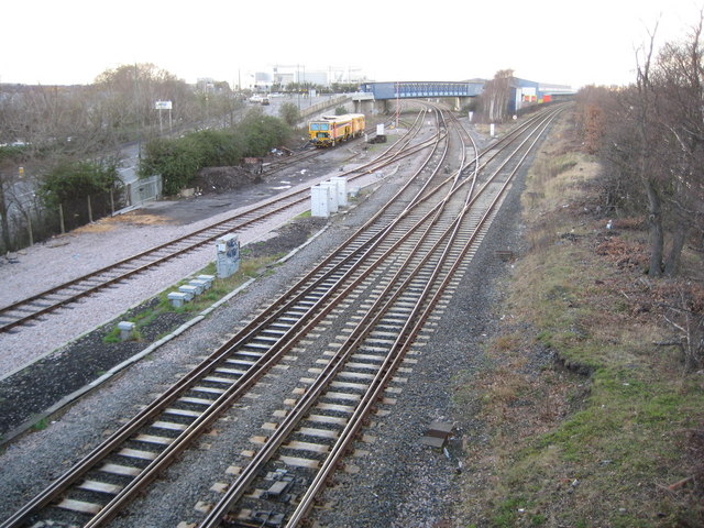 Neasden South Junction